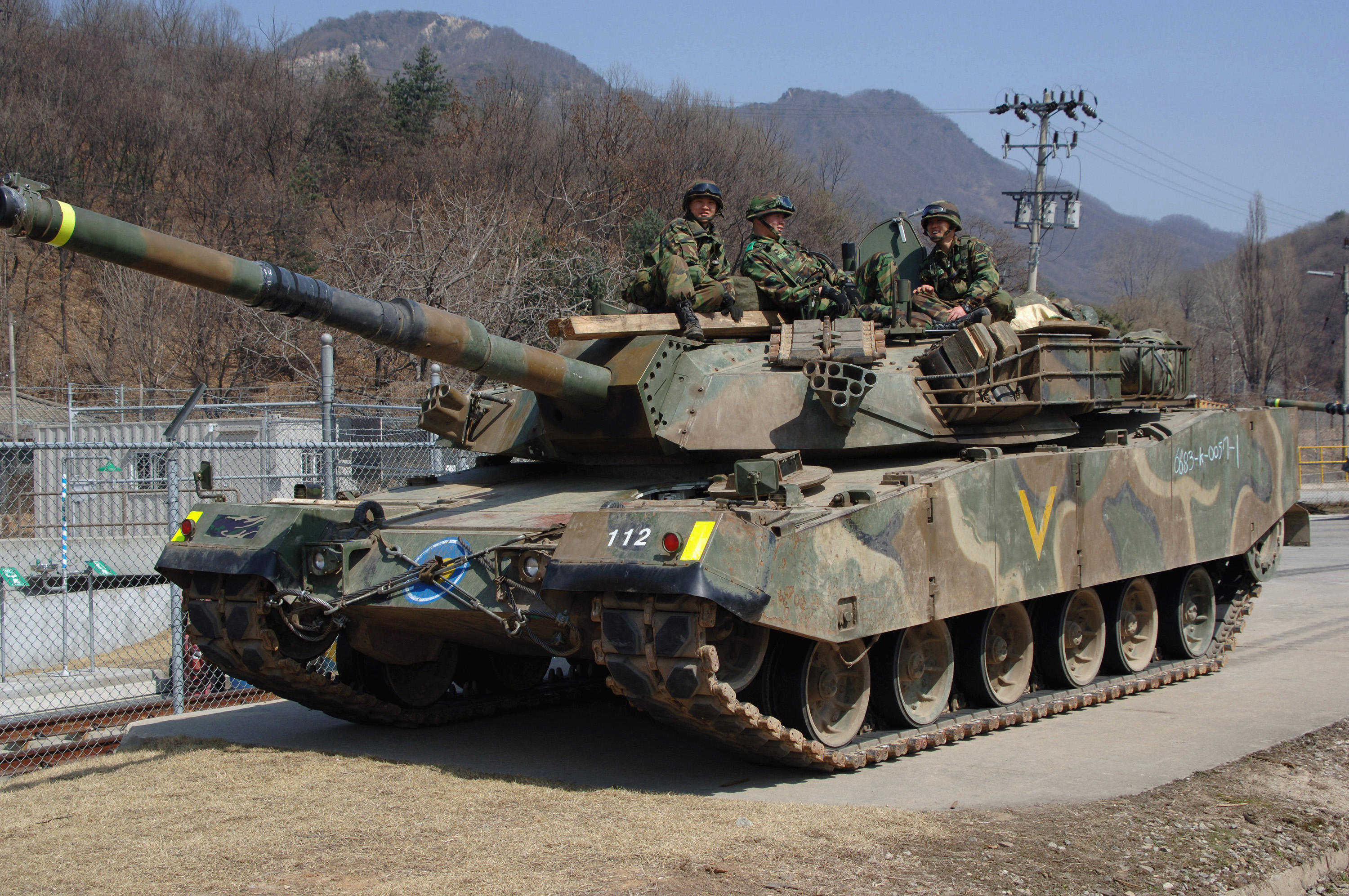 Republic of Korea (ROK) Army Soldiers, 57th Cavalry Battalion (BN), 26th Division, sit on top of the a K1 Main Battle Tank (MBT) as they wait to load it onto a railcar at Camp Casey, Gyeonggi-do Province, Republic of Korea (KOR), in preparation for a Reception, Staging, Onward movement and Integration (RSO&I) field training exercise.